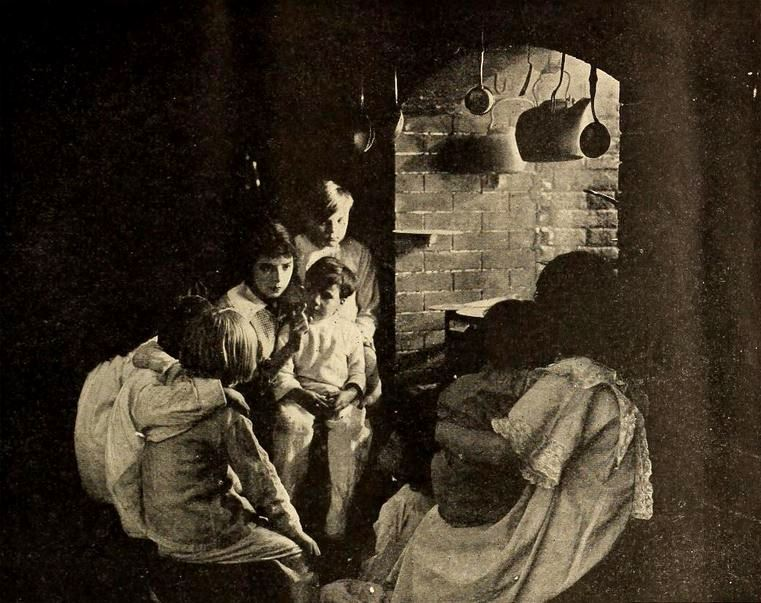 Still from the American film Little Orphant Annie (1918) with Colleen Moore, on page 7 of the February 1919 Film Fun.